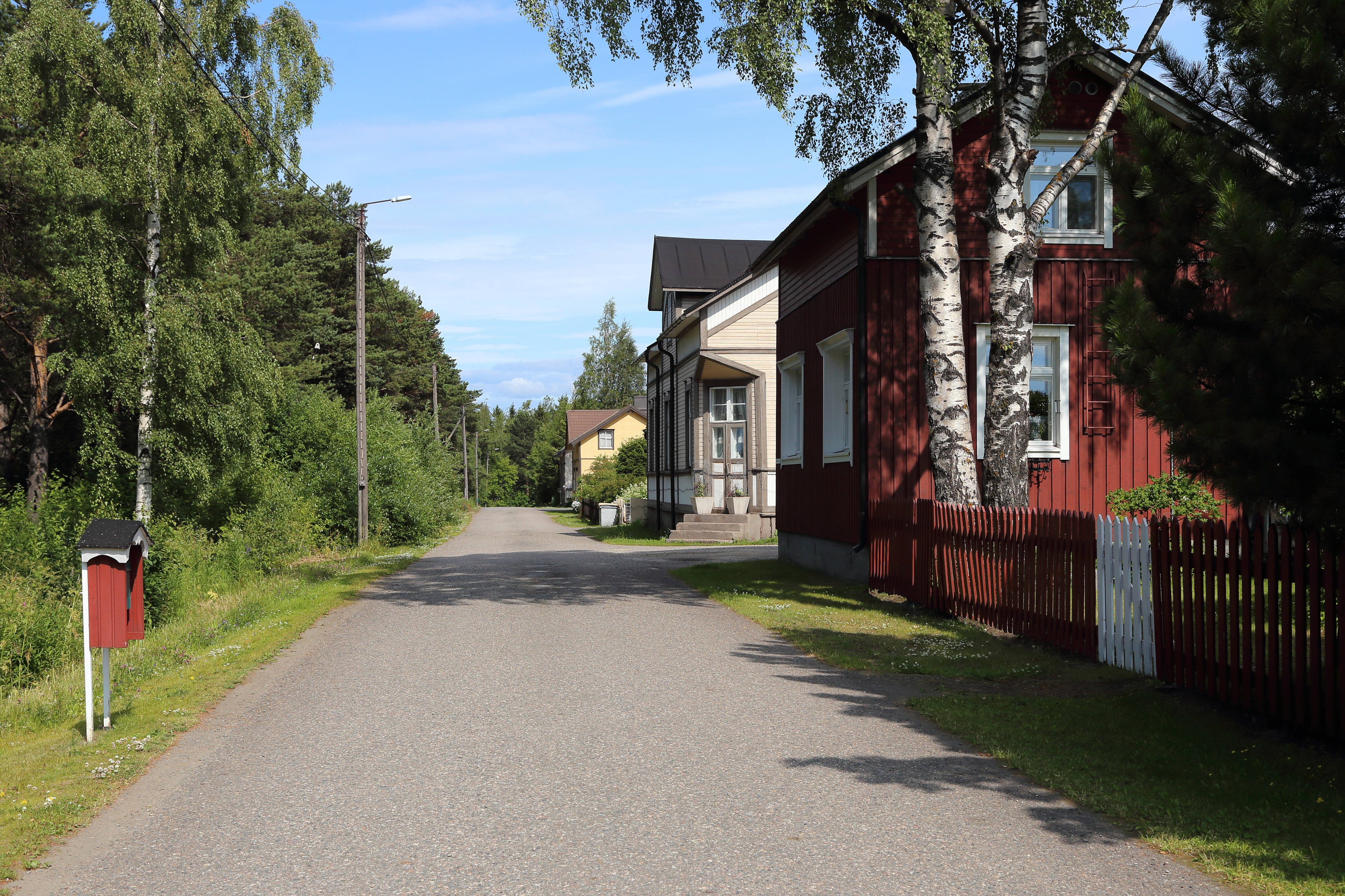 The Pursimiehenkatu street in the Lapaluoto neighbourhood of Raahe.